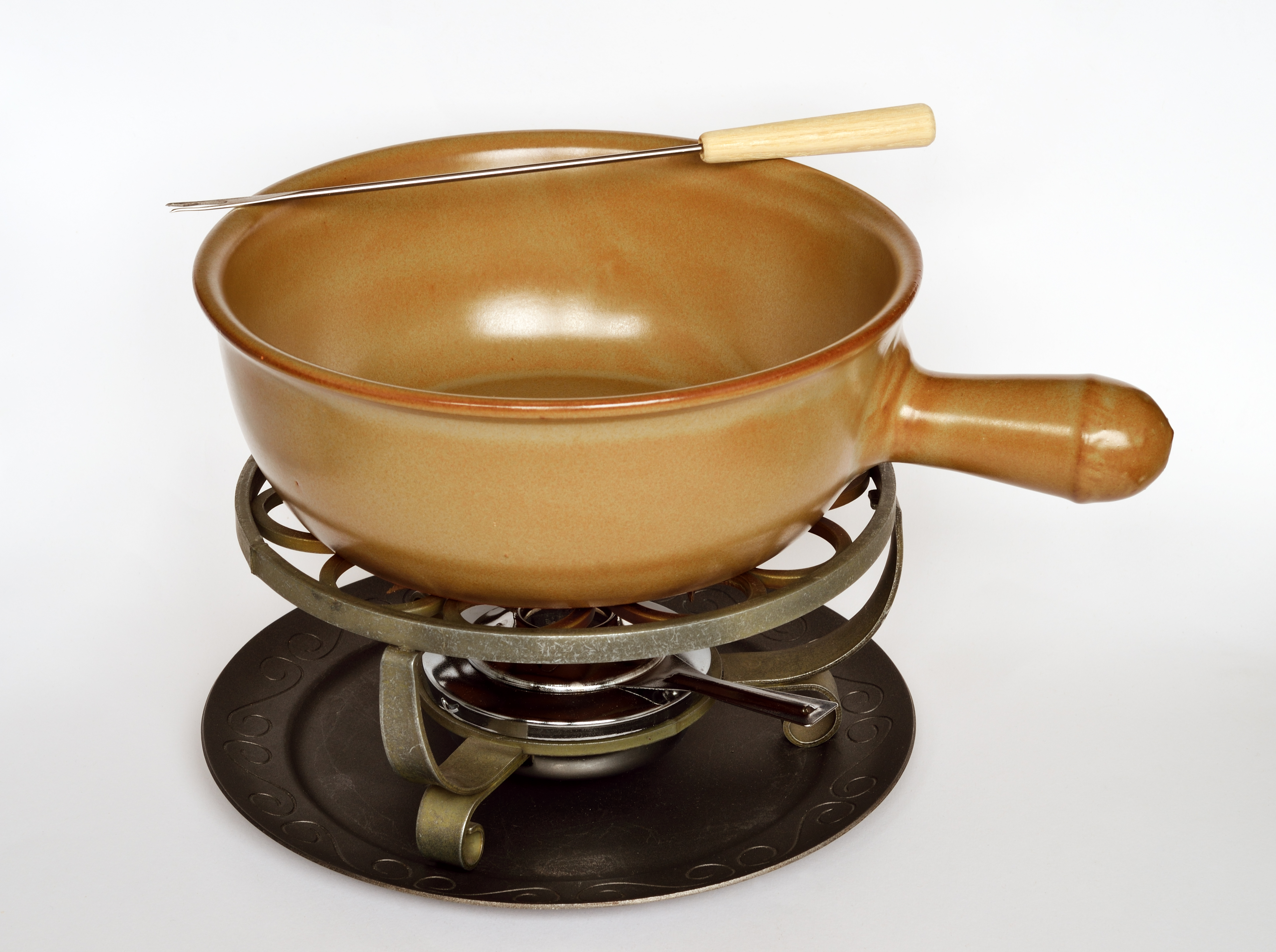 a caquelon with a portable stove